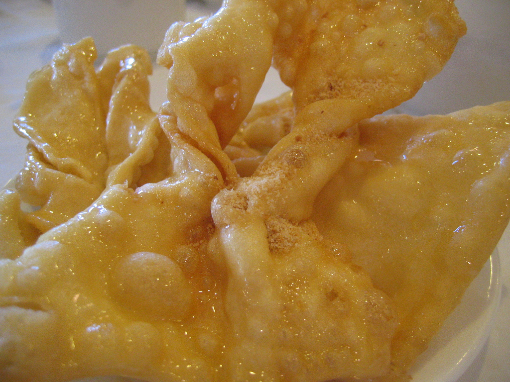 蛋散, a kind of deep fried dim sum.